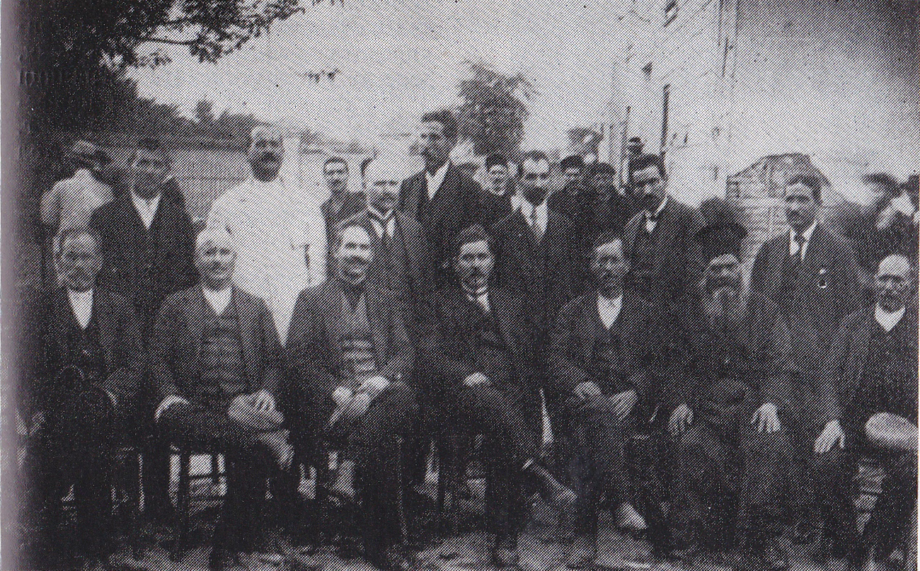 Bulgarian revolutionaries from Odrin region